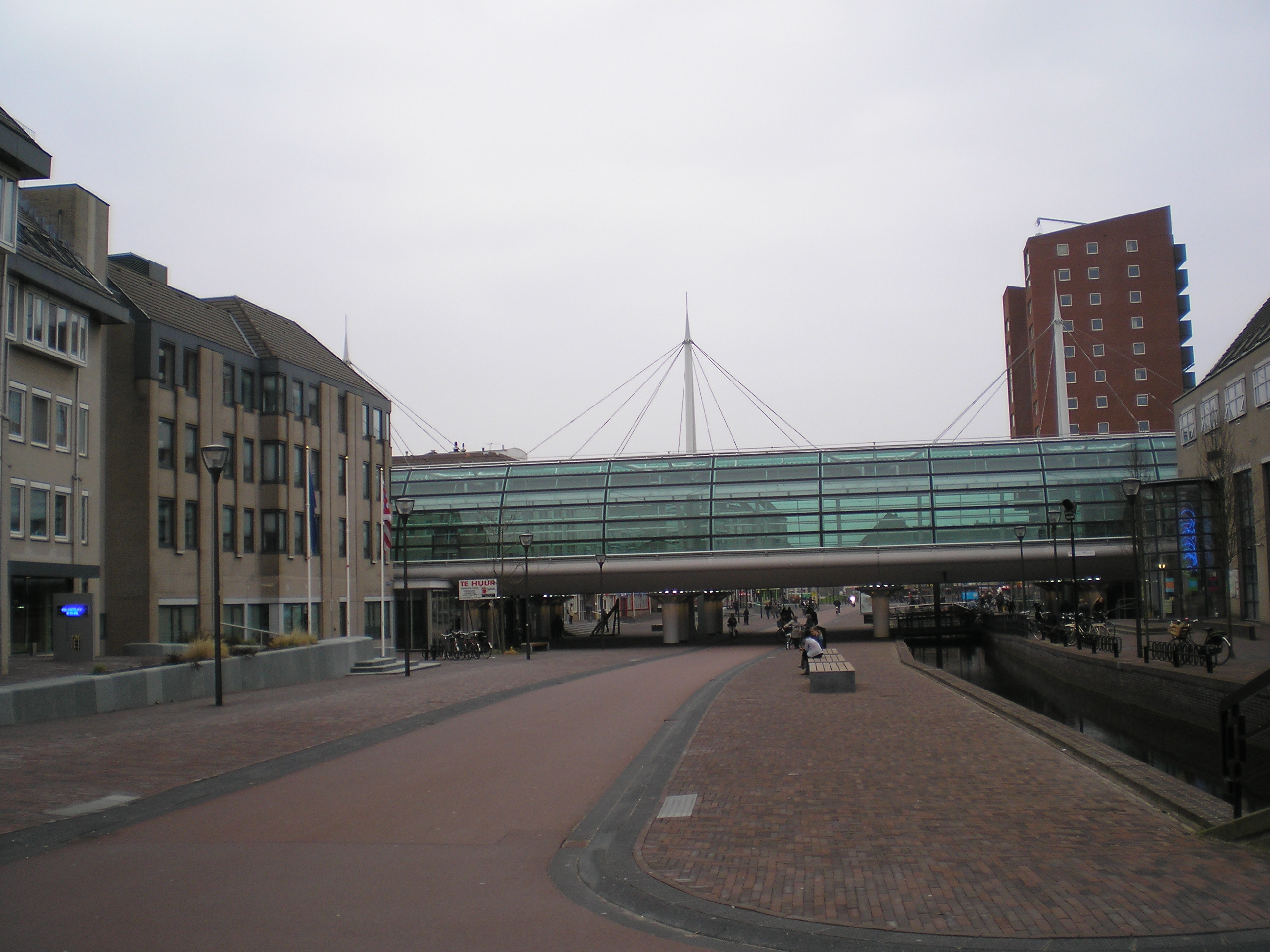 Railway station and town hall to the Onderdoor 25 in Houten in the Netherlands